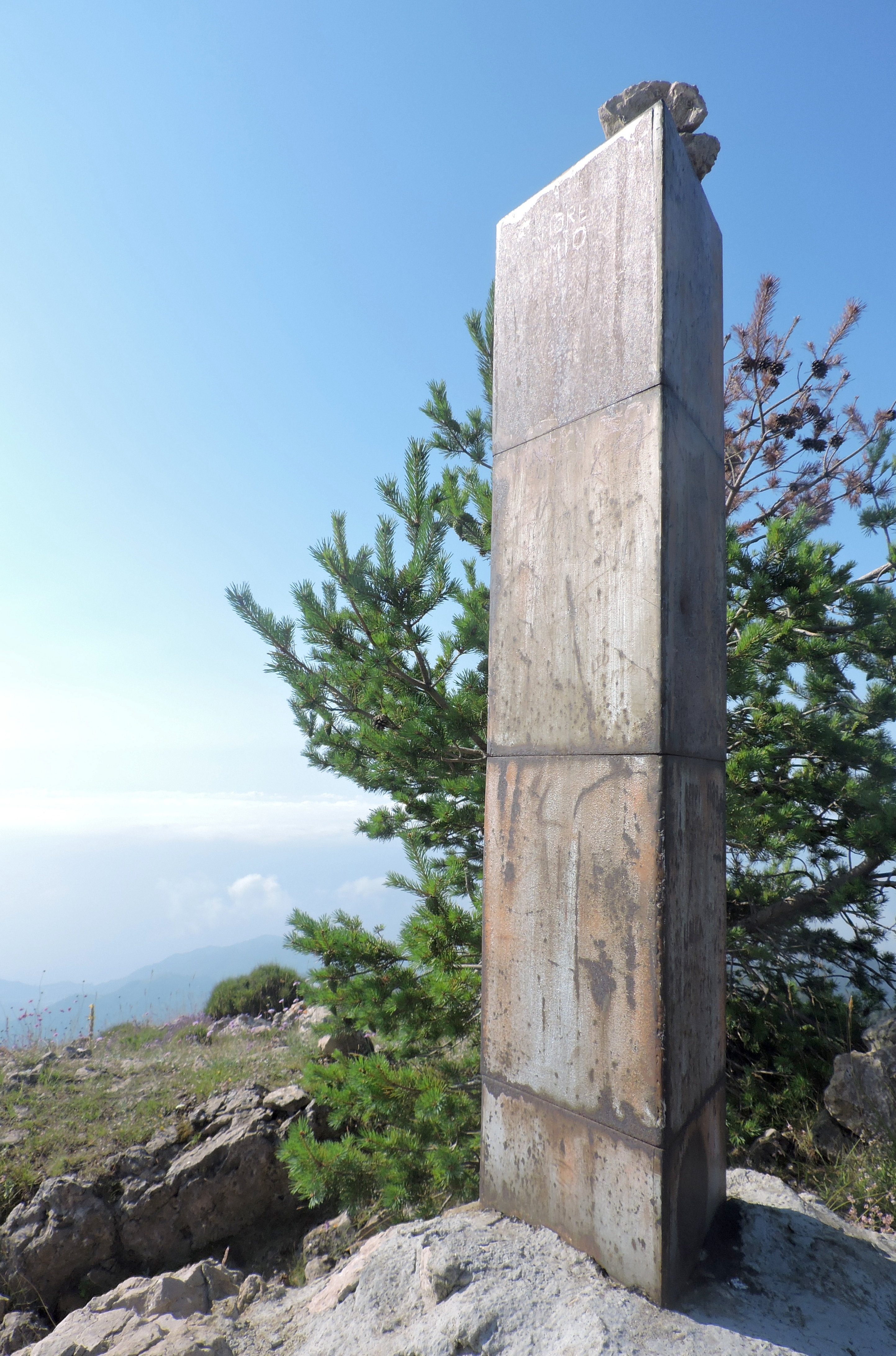 Monte Grammondo: geodetic control point